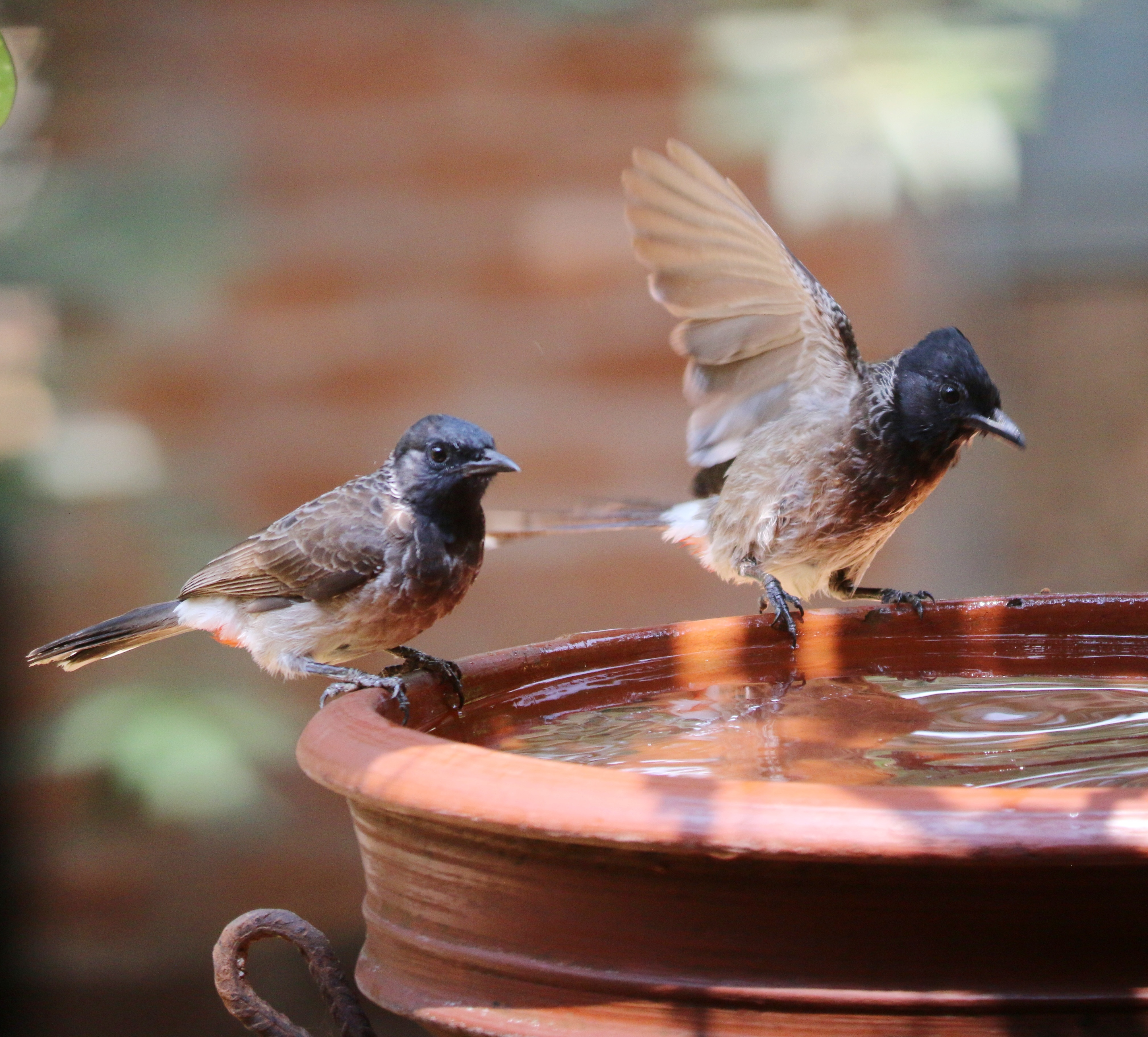 Red vented bulbul in birdbath from koottanad Palakkad Kerala India